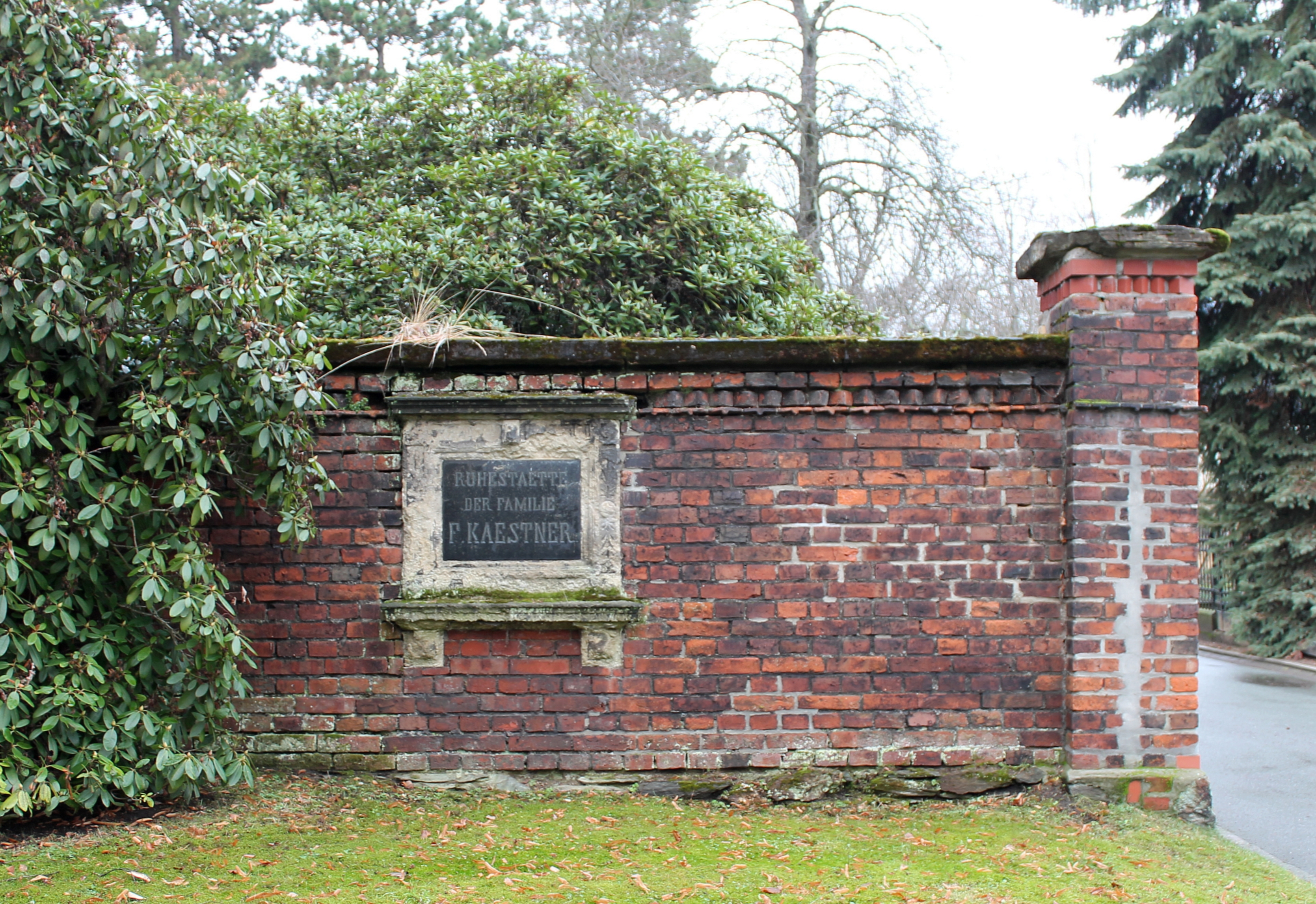 Kaestner family grave. Central cemetary, Zwickau, Saxony, Germany.